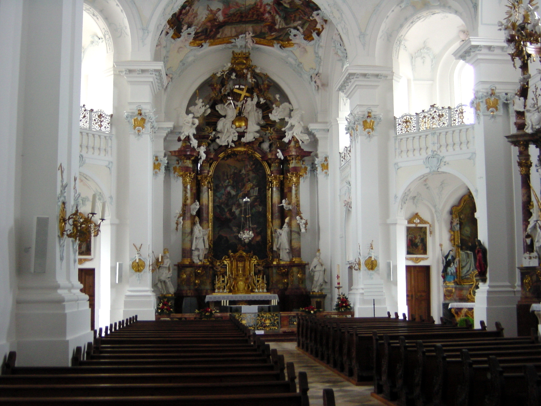 high altar of Sankt Marinus und Anianus (Rott am Inn)